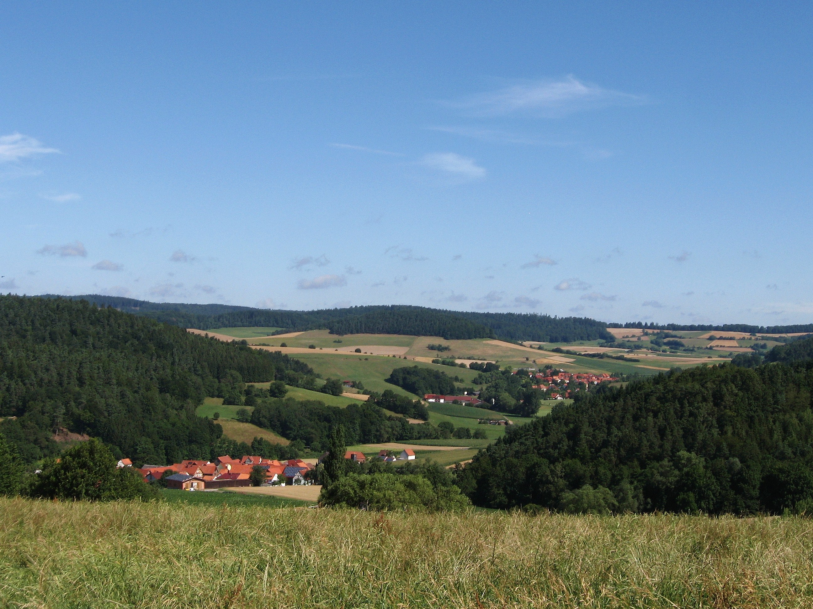 Germany / North Hesse: view on the villages Erdpenhausen (in the left) and Niedergude (in the right). Boths village are a part of Alheim.